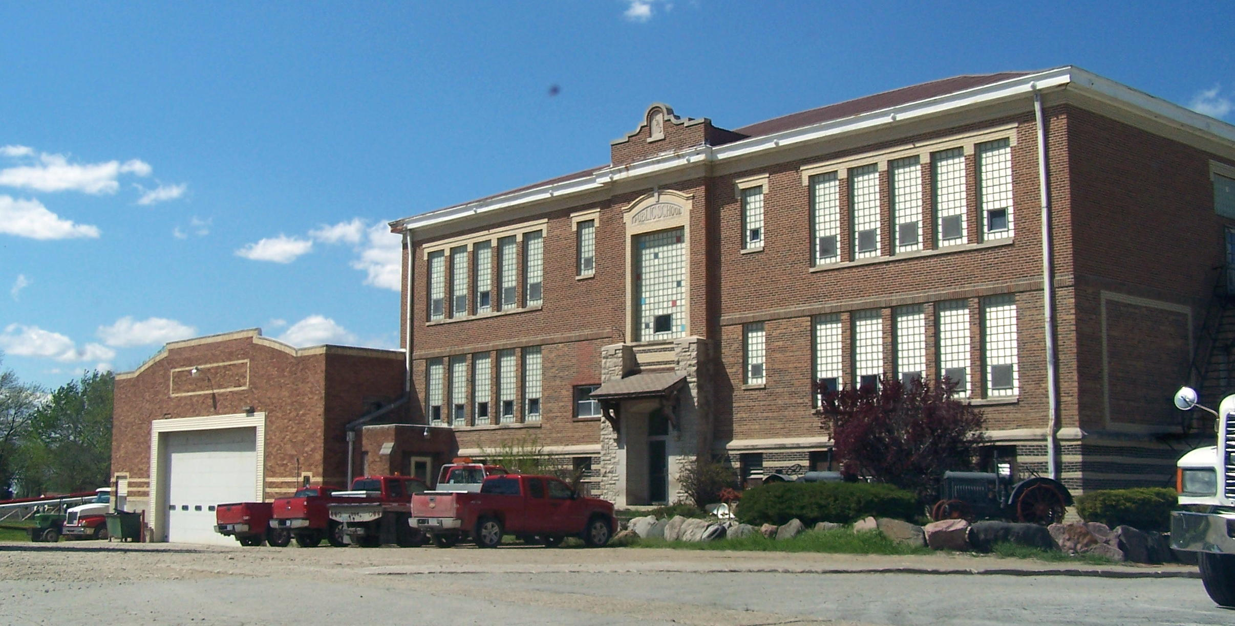 Renwick Public School in Renwick, Iowa. The building is no longer used as a school.